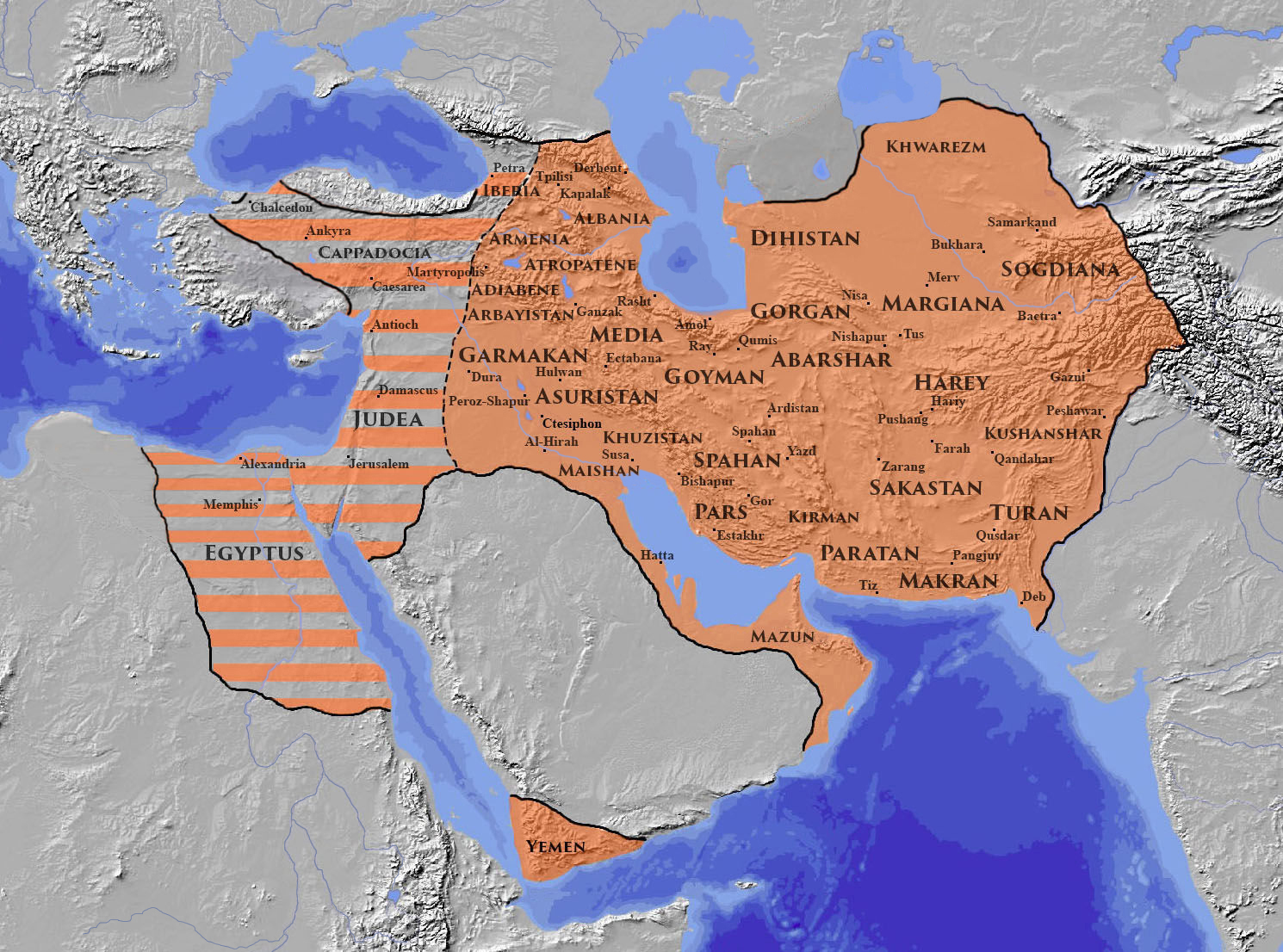 This map depicts more accurate borders of the Sasanian Empire at its greatest extent.